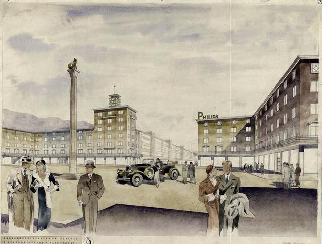 Ole Landmark, Danmarks plass, 1937.